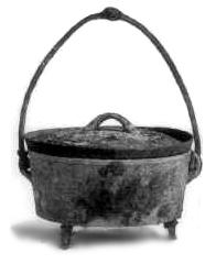 Dutch oven from a photograph made for McClure's Magazine, January, 1896, Vol. VI. No. 2. The Dutch oven shown here was owned by Mrs. Ott, of Petersburg, Illinois. It was featured in an article in McClure's Magazine in 1896. "These Dutch ovens were in many cases the only cooking utensils used by the early settlers. The meat, vegetable, or bread was put into the pot, which was then placed in a bed of coals, and coals heaped on the lid." Dutch oven - Project Gutenberg etext 13637.jpg